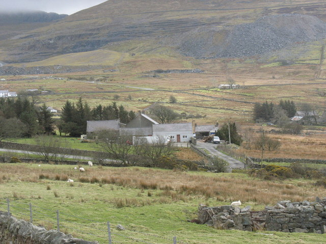 Cefn Coch Farm Cefn Coch (=red ridge) is the largest sheep farm in the district having been enlarged in the second half of the 20thC through the amlgamation with it of smaller and, by then, increasingly uneconomic units.